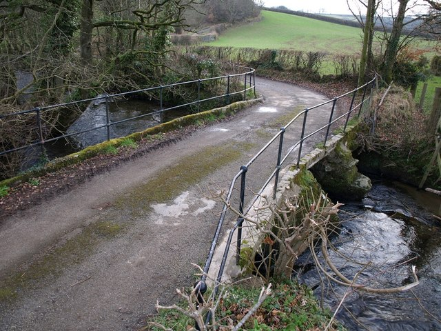 Bridge near Polyphant The lane from Polyphant to Trevell crosses Penpont Water, which is flowing to the left, before climbing the hill in the background.